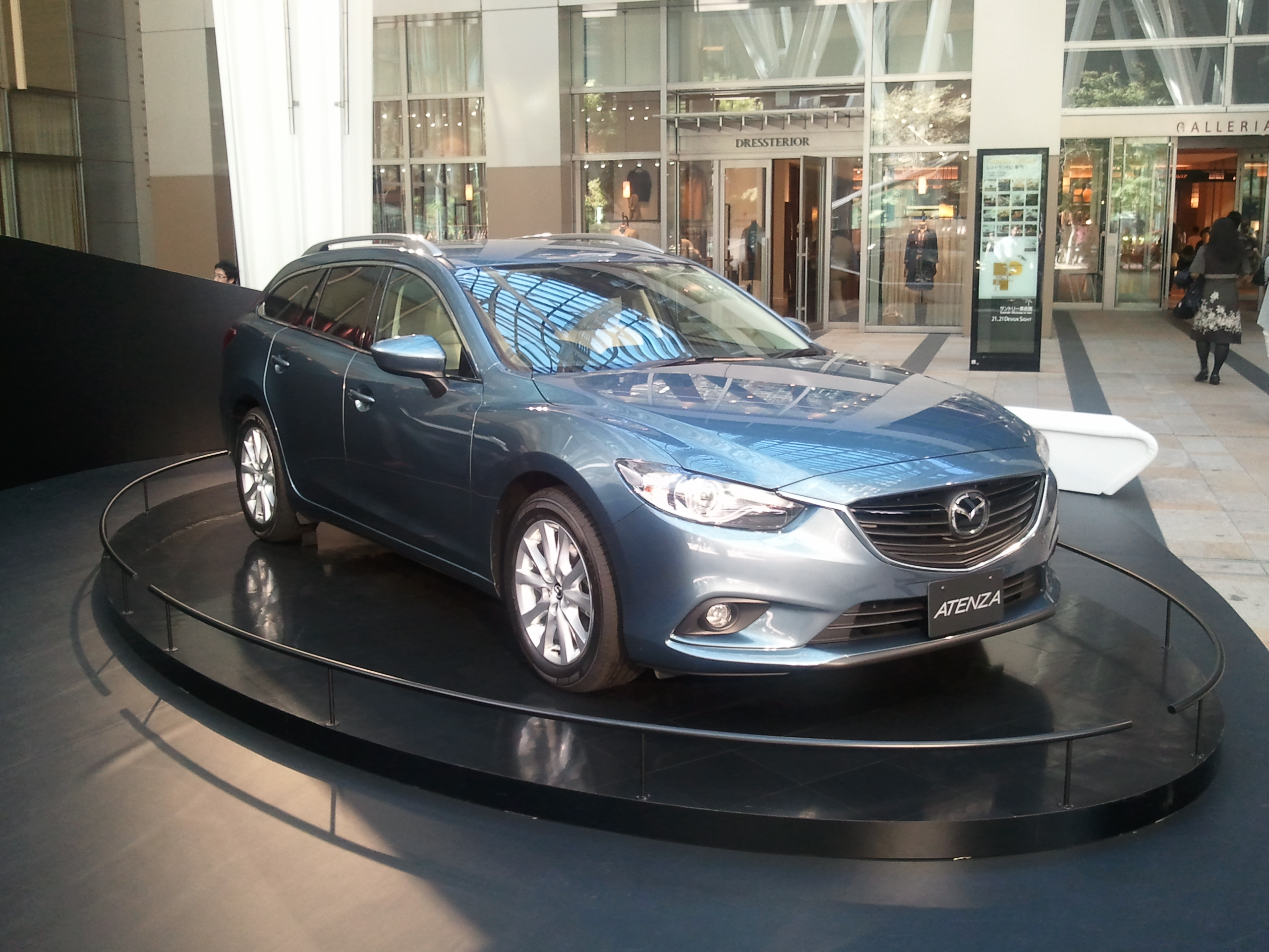 Mazda Atenza wagon photographed at the Tokyo Midtown Design Touch 2012.